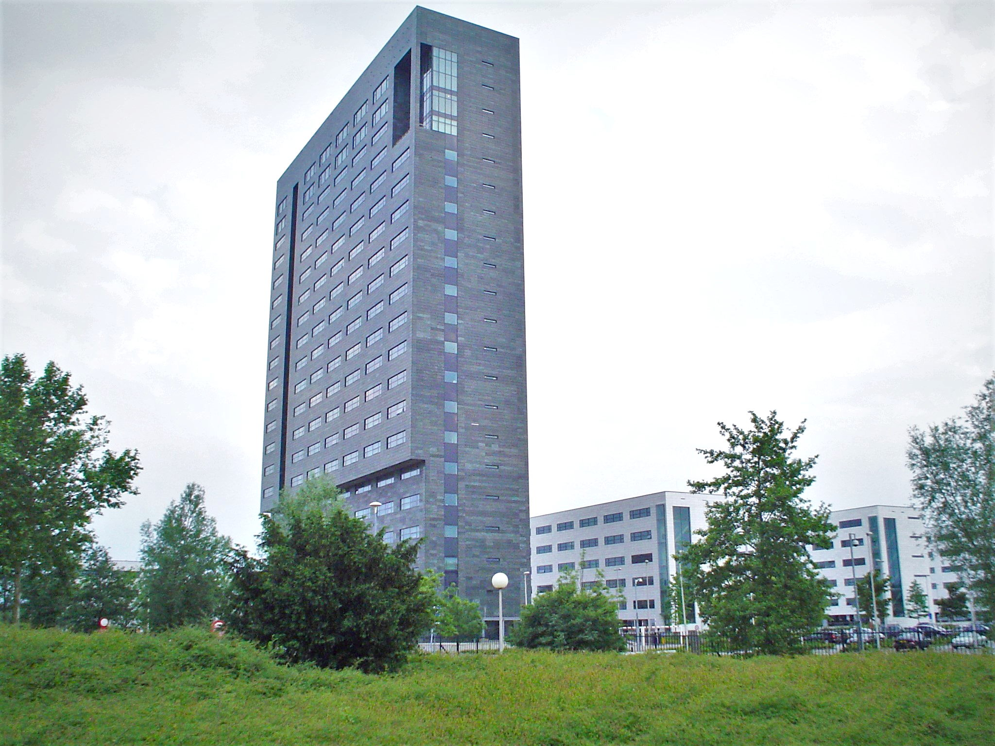 Corporate headquarters of ASML (NASDAQ:ASMLD), a supplier of lithography systems for the semiconductor industry. The office building is 82 metres tall and located in Veldhoven, Netherlands.